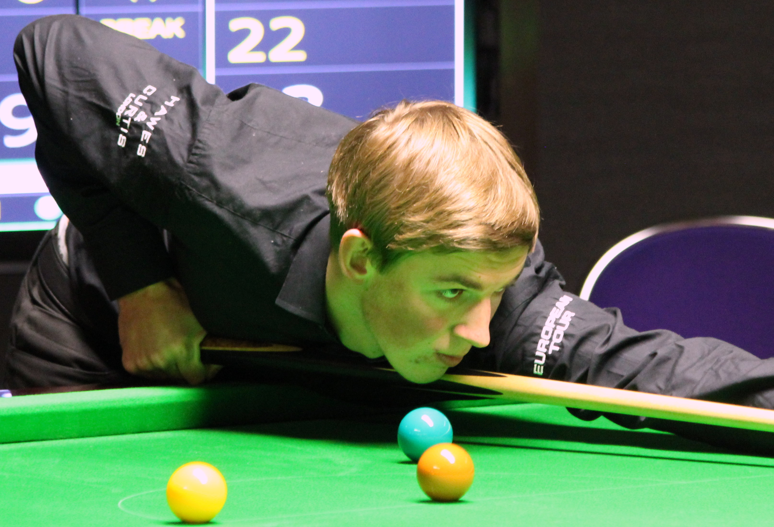 James Cahill beim Paul Hunter Classic 2014